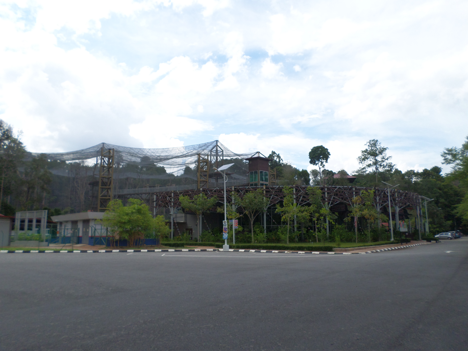 Melaka Bird Park, Ayer Keroh, Central Melaka, Melaka, MalaysiaBahasa Melayu: Taman Burung Melaka, Ayer Keroh, Melaka Tengah, Melaka, Malaysia